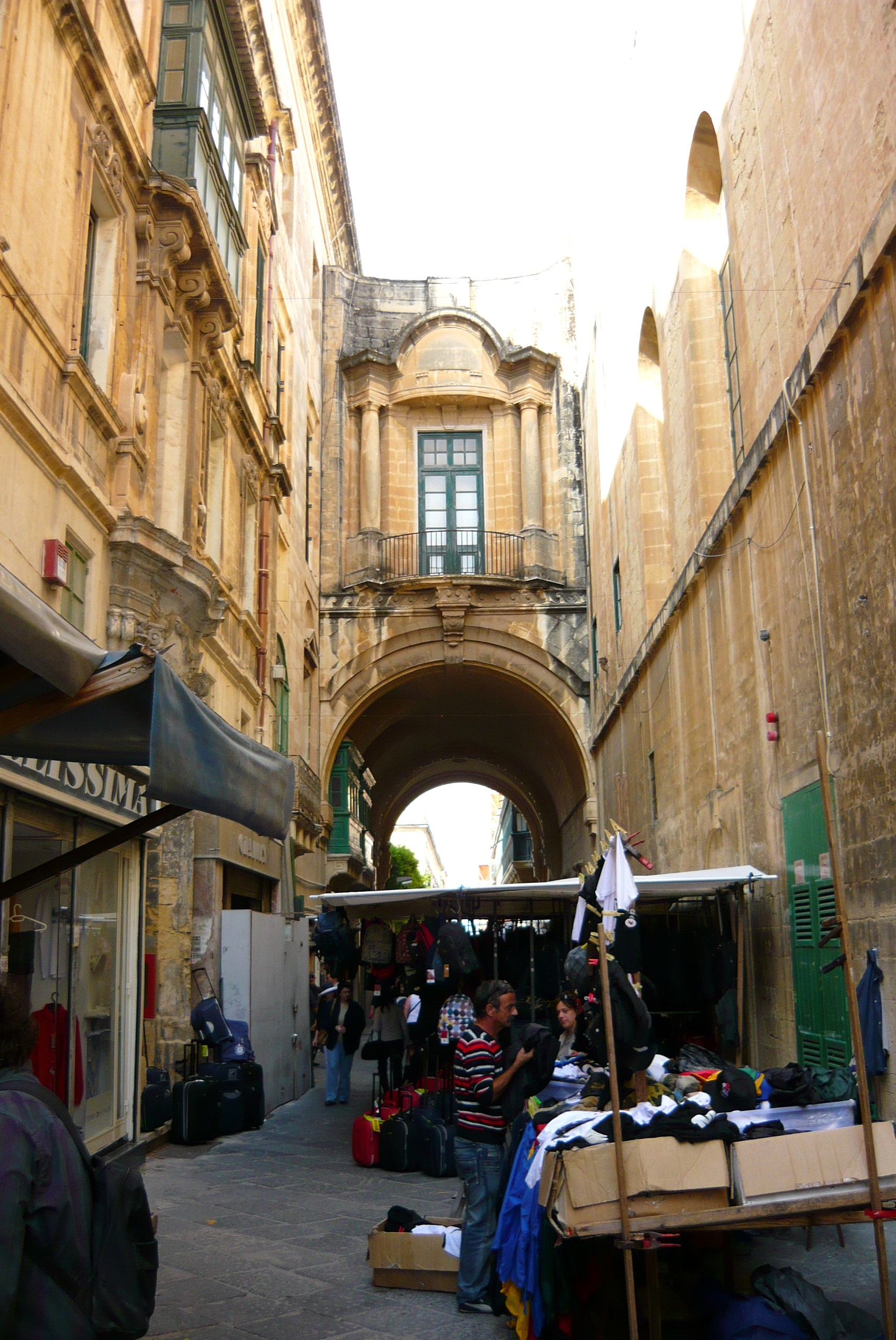 Market Activity in Valetta